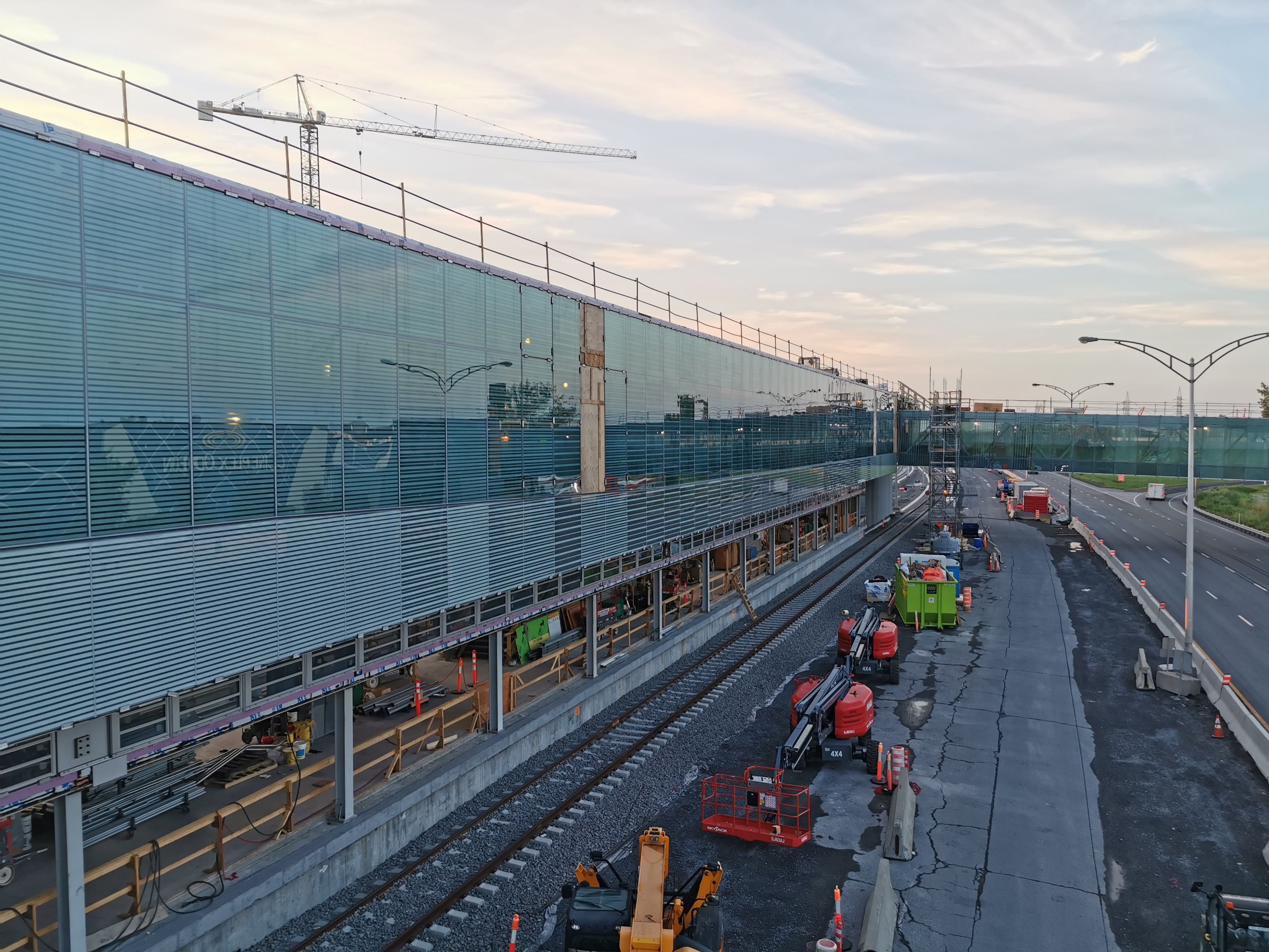 Picture of the Réseau Expresss Métropolitain light metro/rapid transit network's "Du Quartier" station, currently under construction, on June 29, 2020.